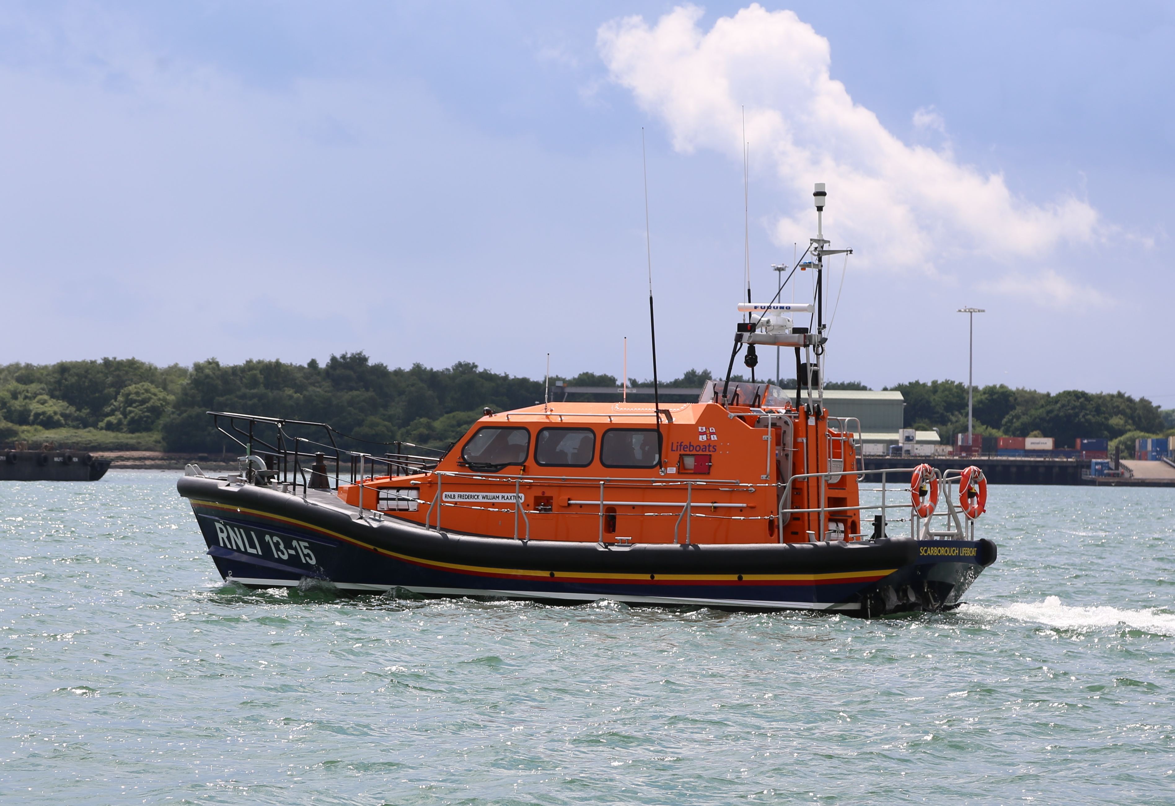 Photo of the Shannon class lifeboat 13-15 RNLB Frederic William Plaxton